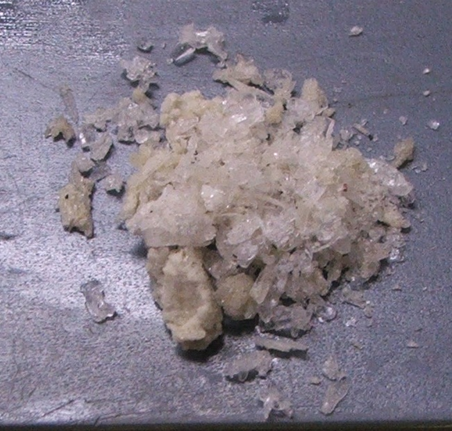 Impure potassium carbonate made from slow crystallization of potassium hydroxide obtained from nickel-cadmium batteries.